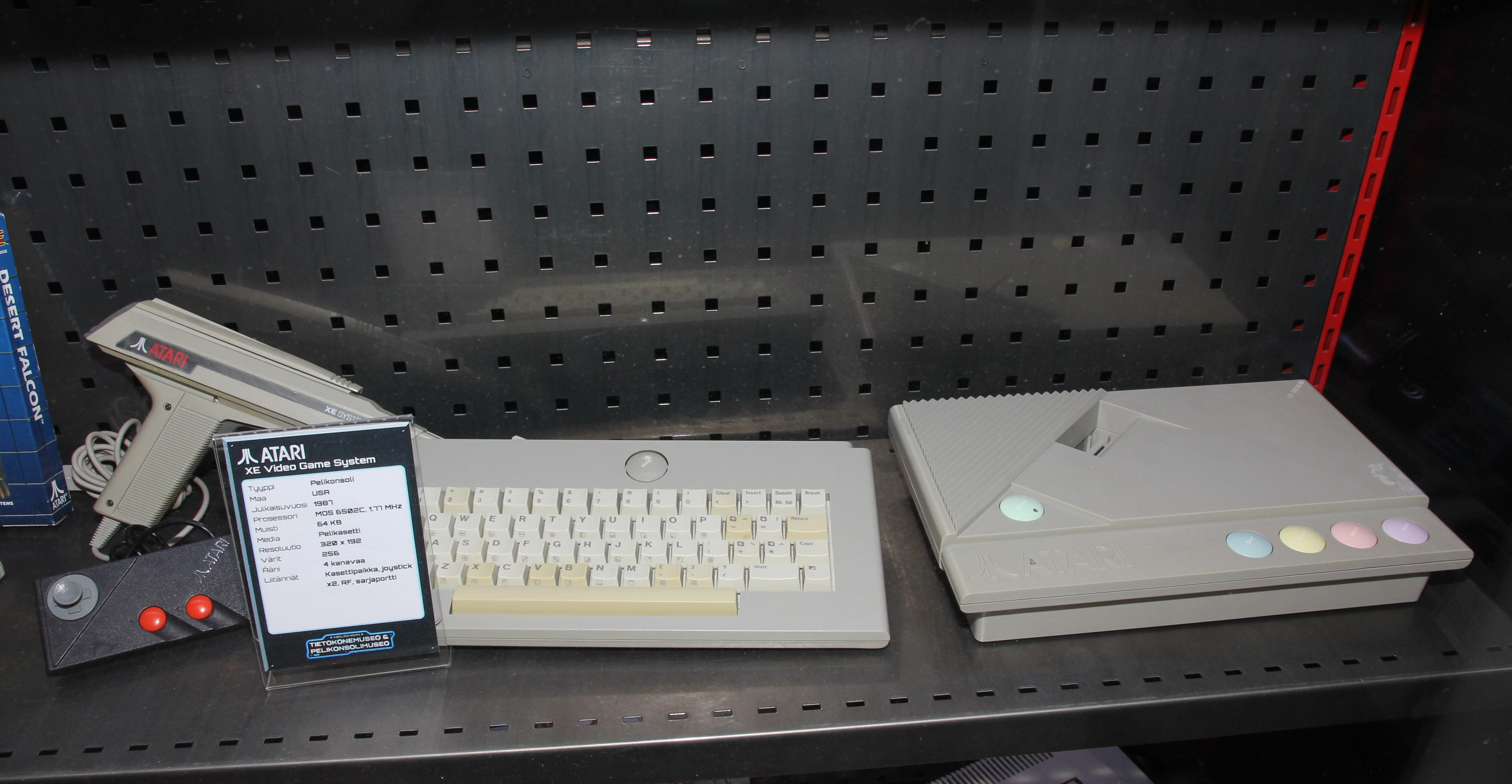 Atari XE Video game system with keyboard, light gun and game controller in Helsinki Computer and game console museum.